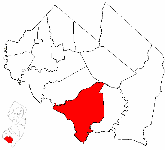 Map of Cumberland County highlighting Downe Township